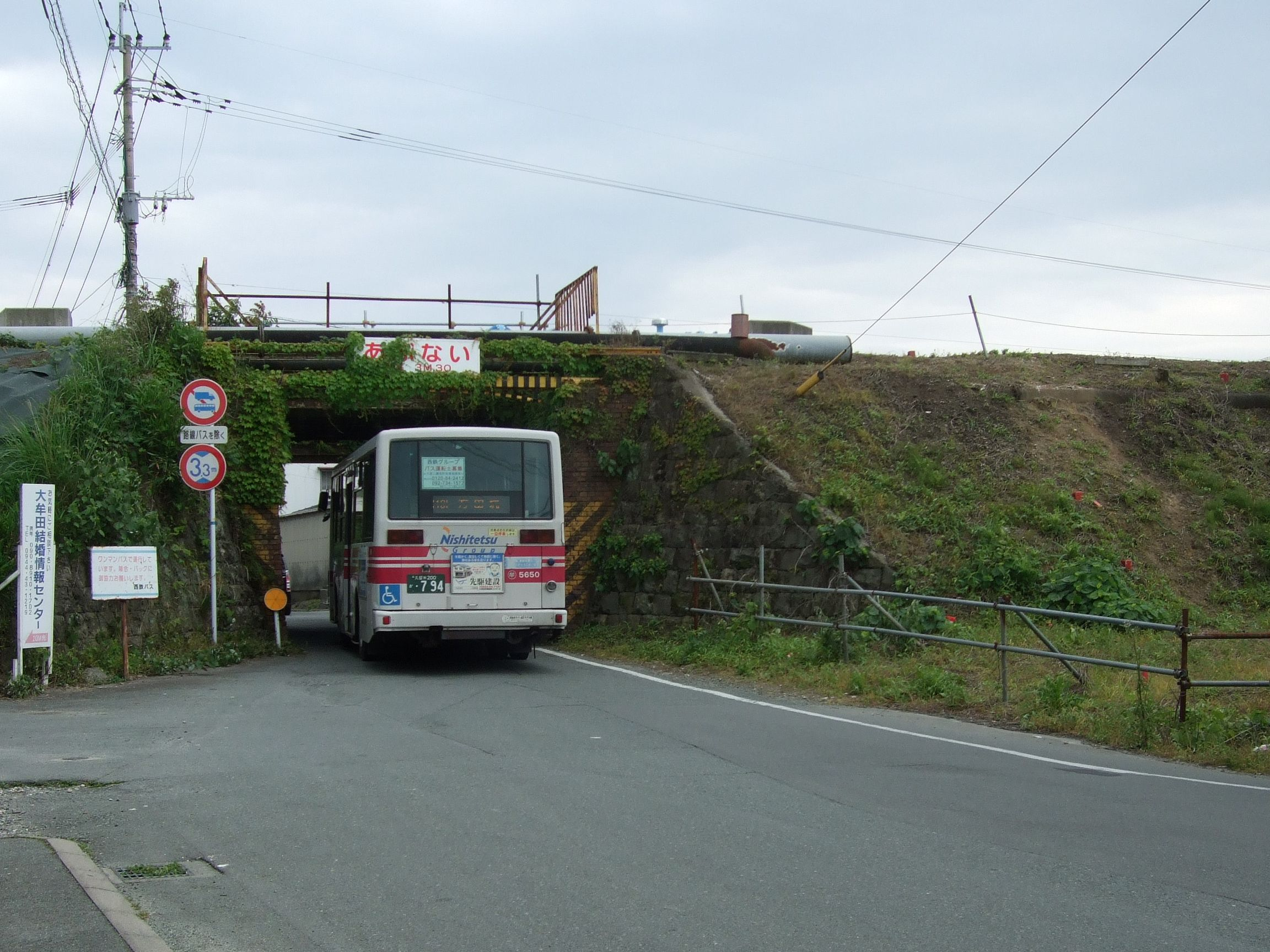 Nishitetsu Bus running between Okita and Kanda, Omuta City, Fukuoka, Japan. / Company:Nishitetsu Bus Omuta / Use:transit bus / Car license:FOR200 KA 794 / Code:5650 / Chassis manufacturer:Nissan Diesel / Coachbuilder:Nishinippon Shatai Kogyo